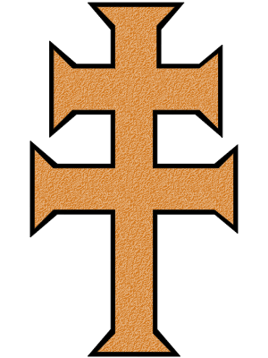 Holy Cross - a symbol of the Santo Daime doctrine (also known as Cross of Lorraine)